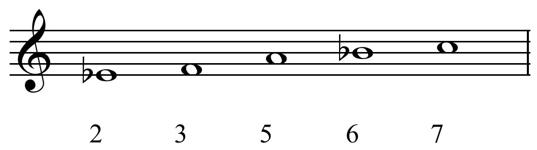 Pelog barang 'subdivision'. "The representations of slendro and pelog tuning systems in Western notation shown above should not be regarded in any sense as absolute. Not only is it difficult to convey non-Western scales with Western notation, but also because, in general, no two gamelan sets will have exactly the same tuning, either in pitch or in interval structure. There are no Javanese standard forms of these two tuning systems." Lindsay, Jennifer (1992). Javanese Gamelan, p.39-41. ISBN 0-19-588582-1.